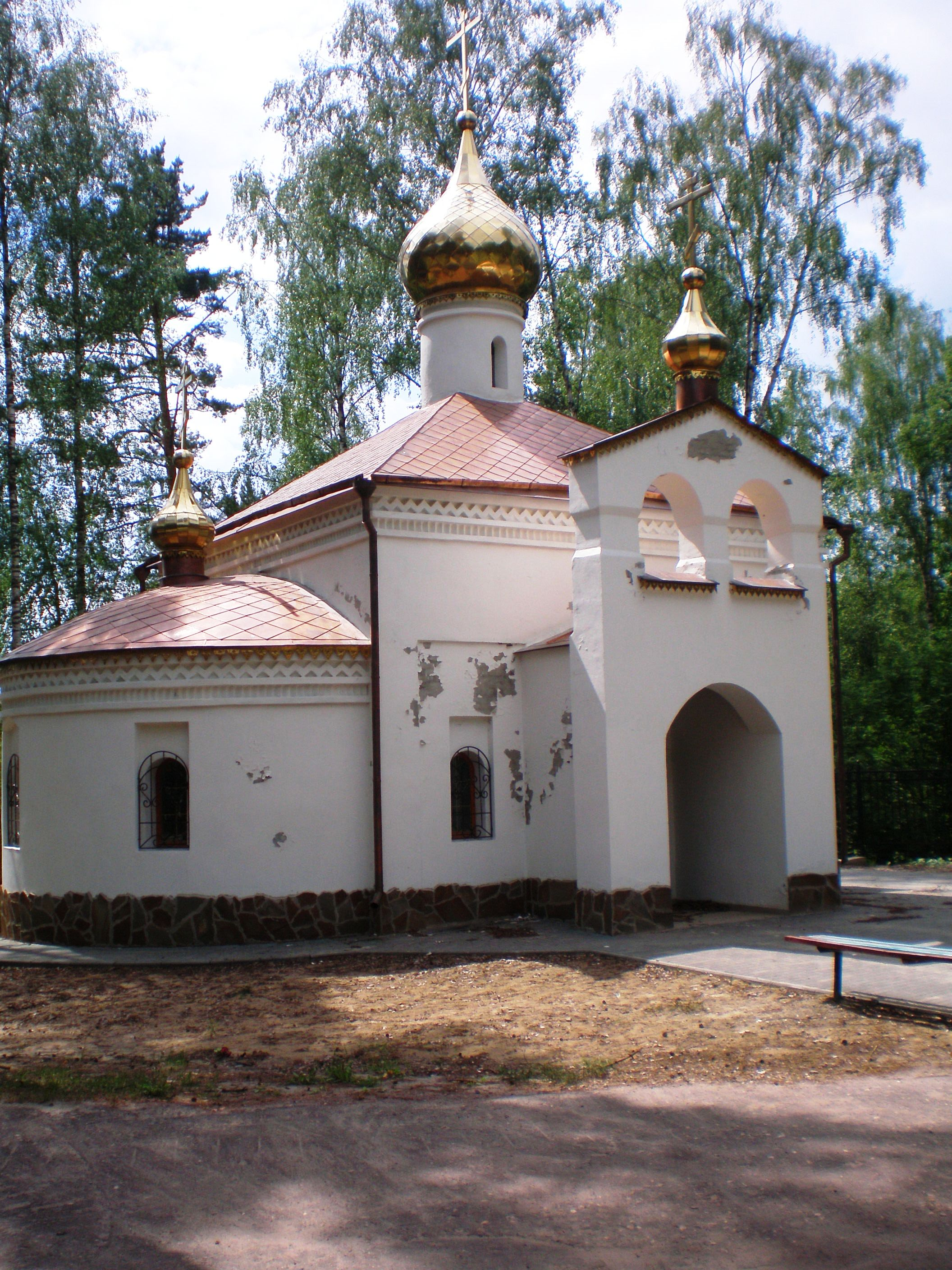 Church in the cemetery, Elektrogorsk, Moscow Oblast, Russia